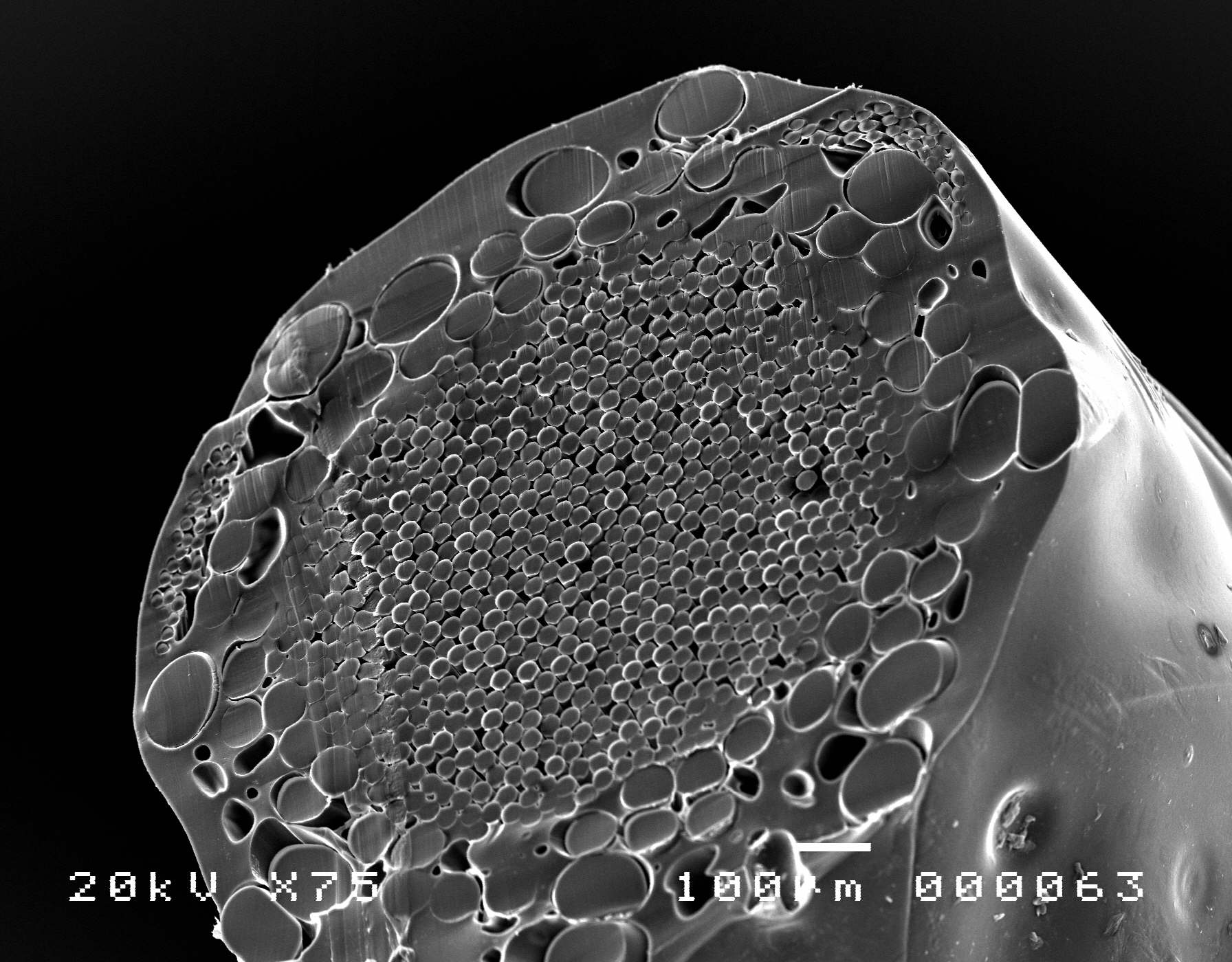 SEM micrograph of a sectioned tennis string. Courtesy of Prof Claire Davis and Elizabeth Chandler, School of Metallurgy and Materials, University of Birmingham.